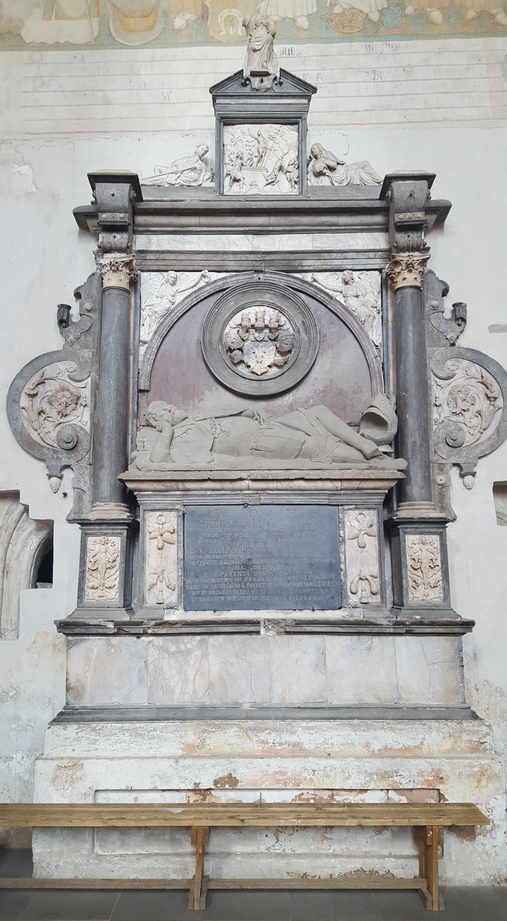 The tombstone of the Great Lithuanian Marshal Stanisław Radziwiłł who died in 1599 and is in the Bernardine church in Vilnius. Made by Wilhelm van den Blocke.